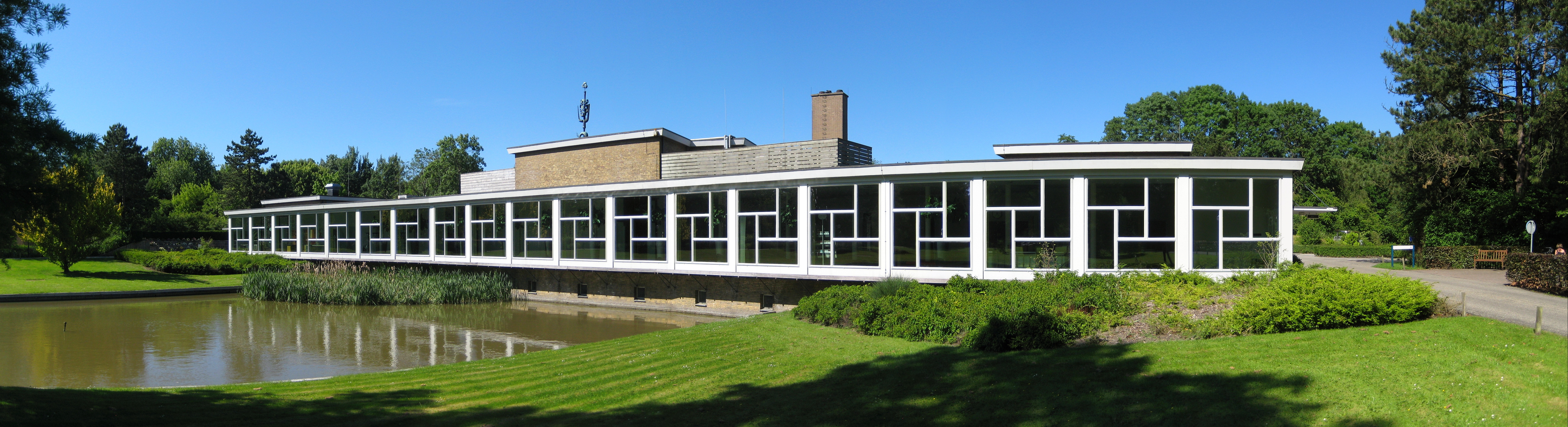 The crematorium (1960) of the Dutch city of Groningen.